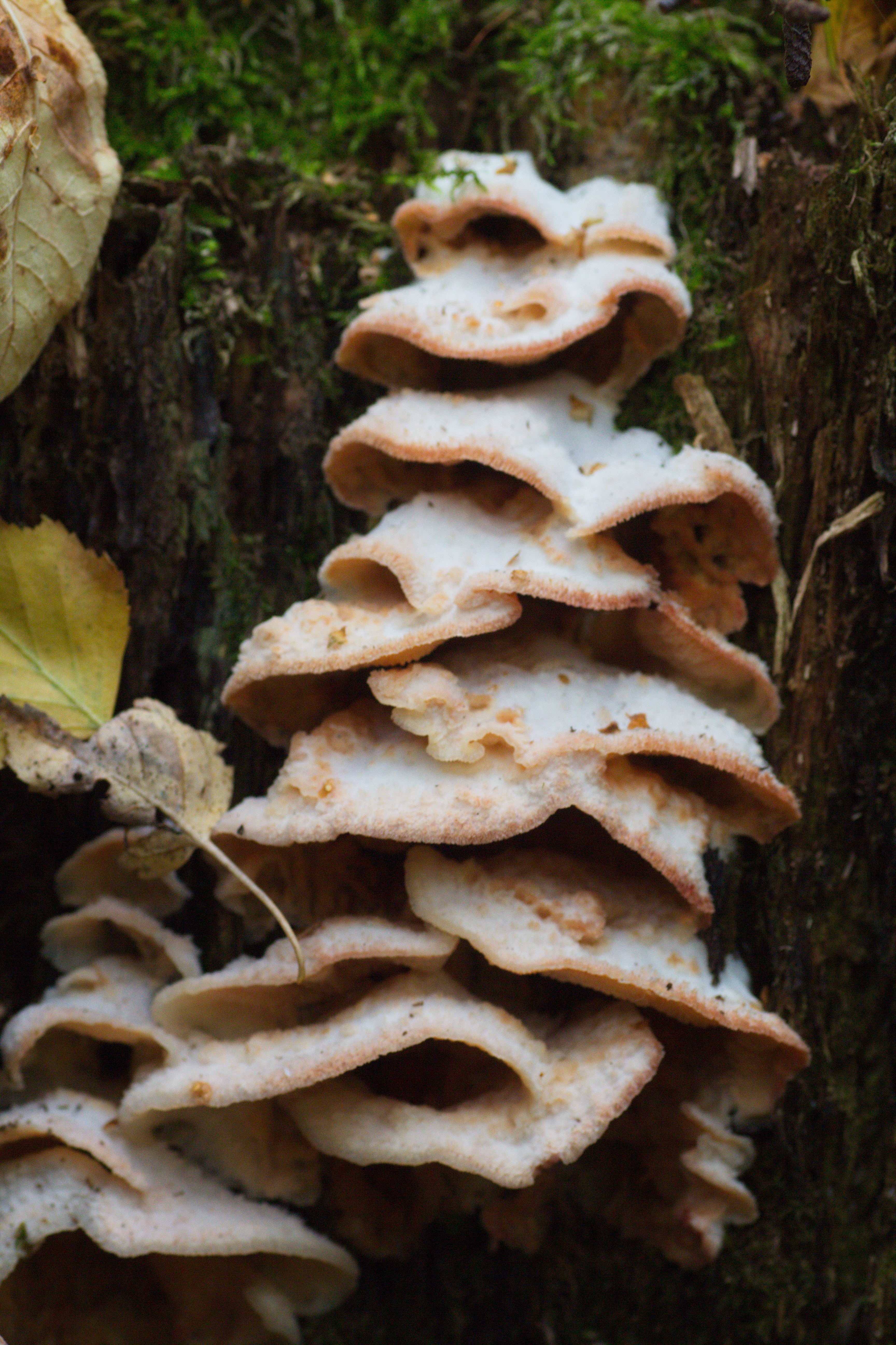 just a Merulius. A very common species here.